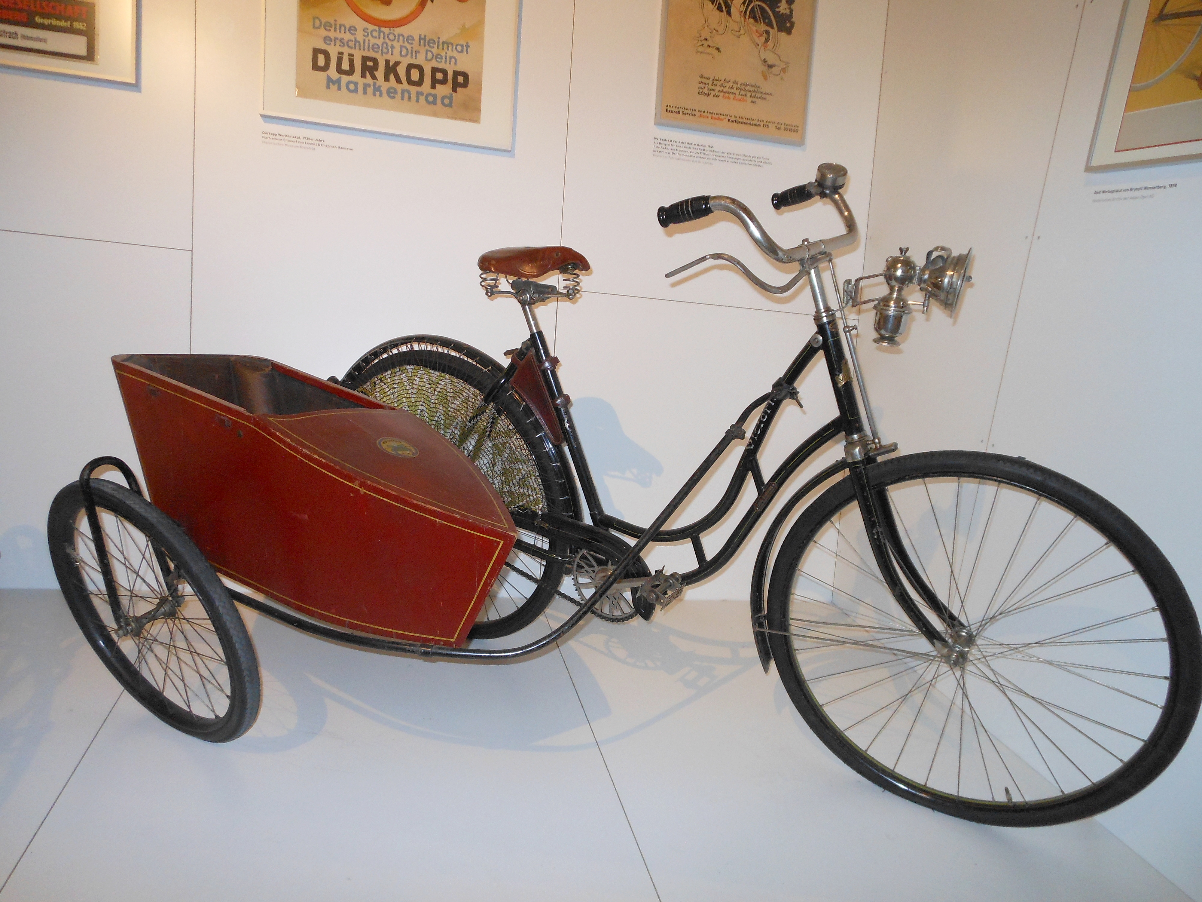 "Velo Diner" of Victoria-Werke, Nuremberg. This ladies bicycle of 1925 (presumably) has a side car, that only fits for small children.